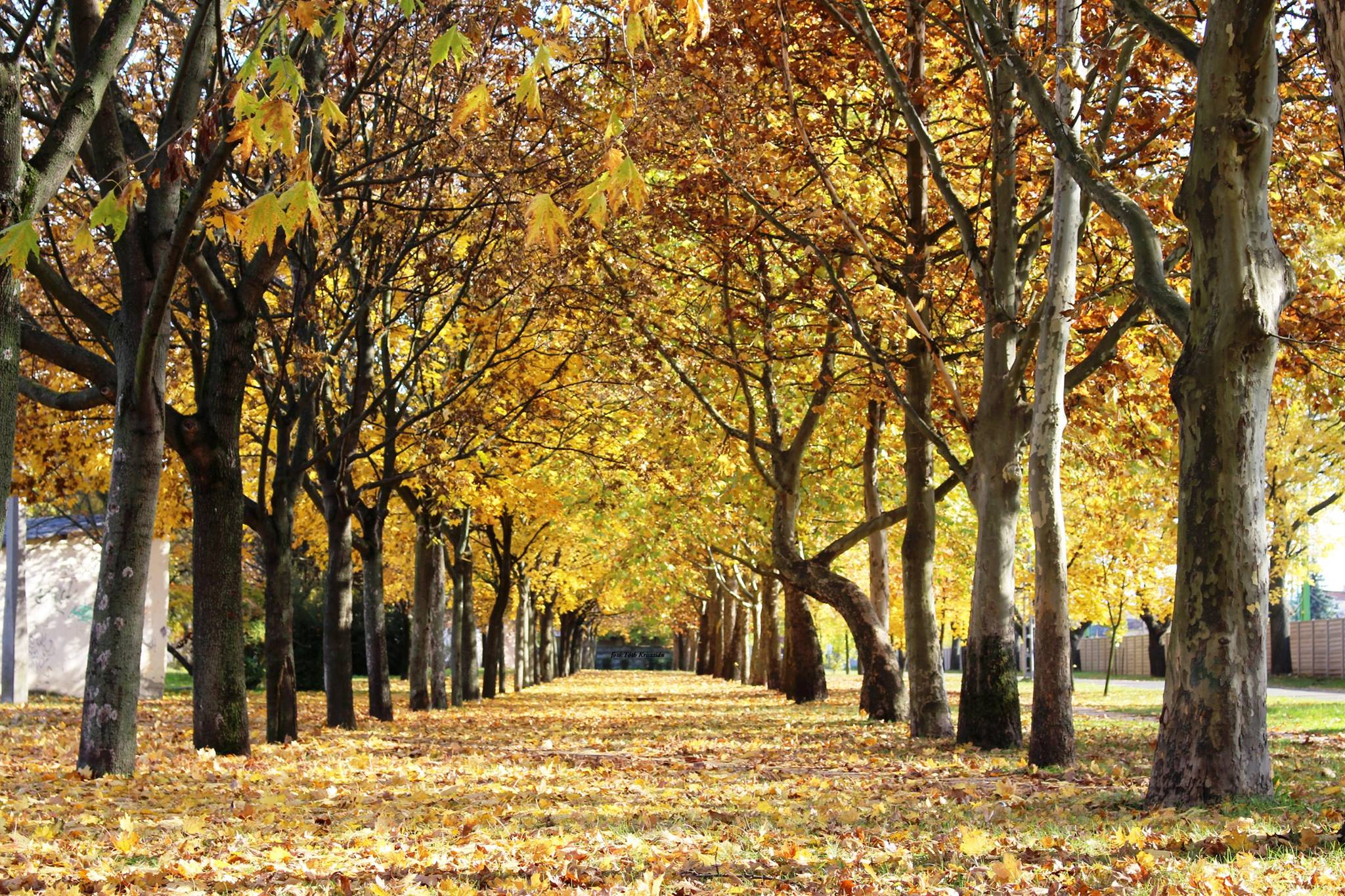 This beauty walkway goes to the South gate (new named Hundred years old gate). The background is wonderful in all season of year